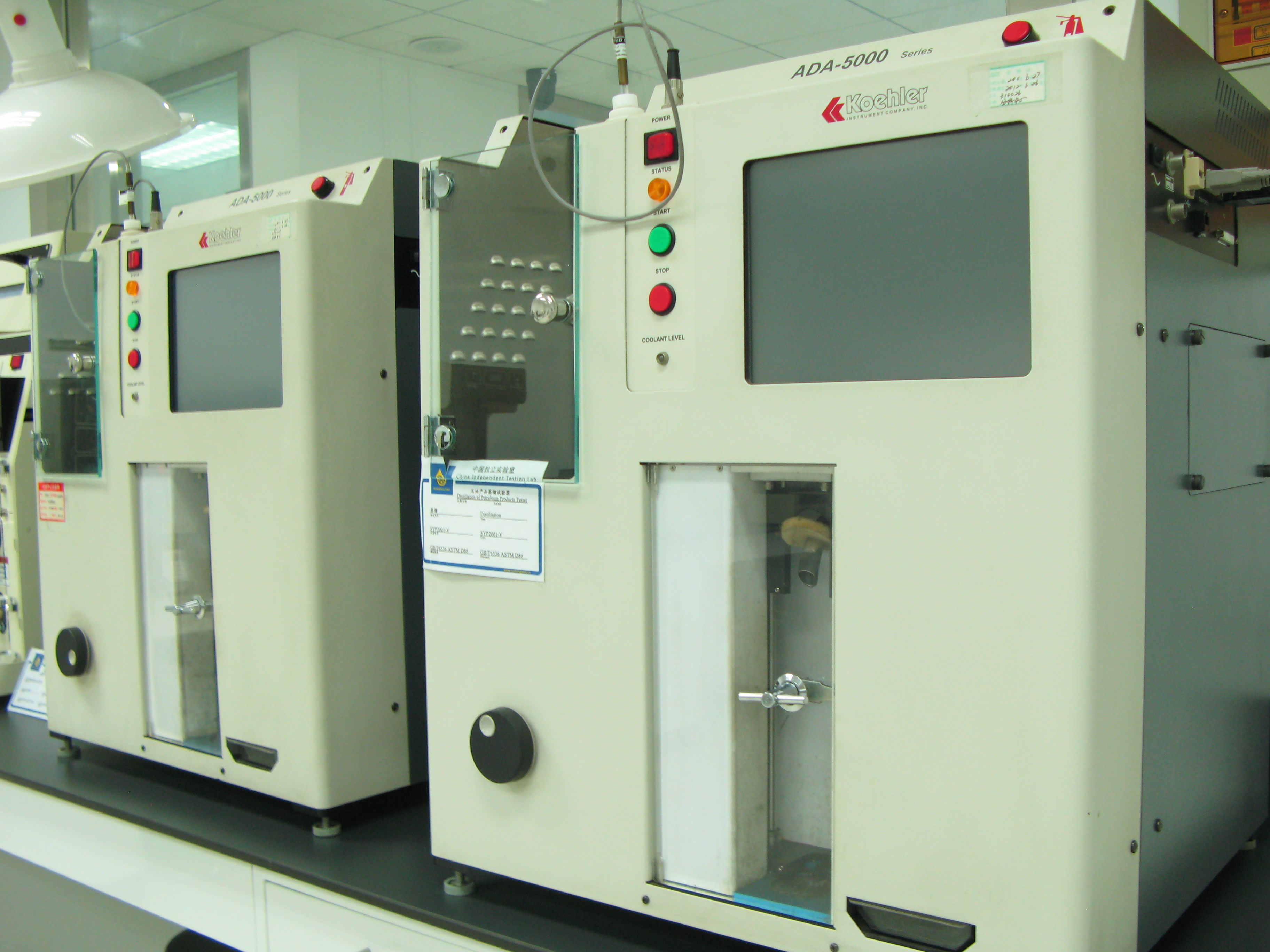 Koehler_Auto_Distillation_Analyzer